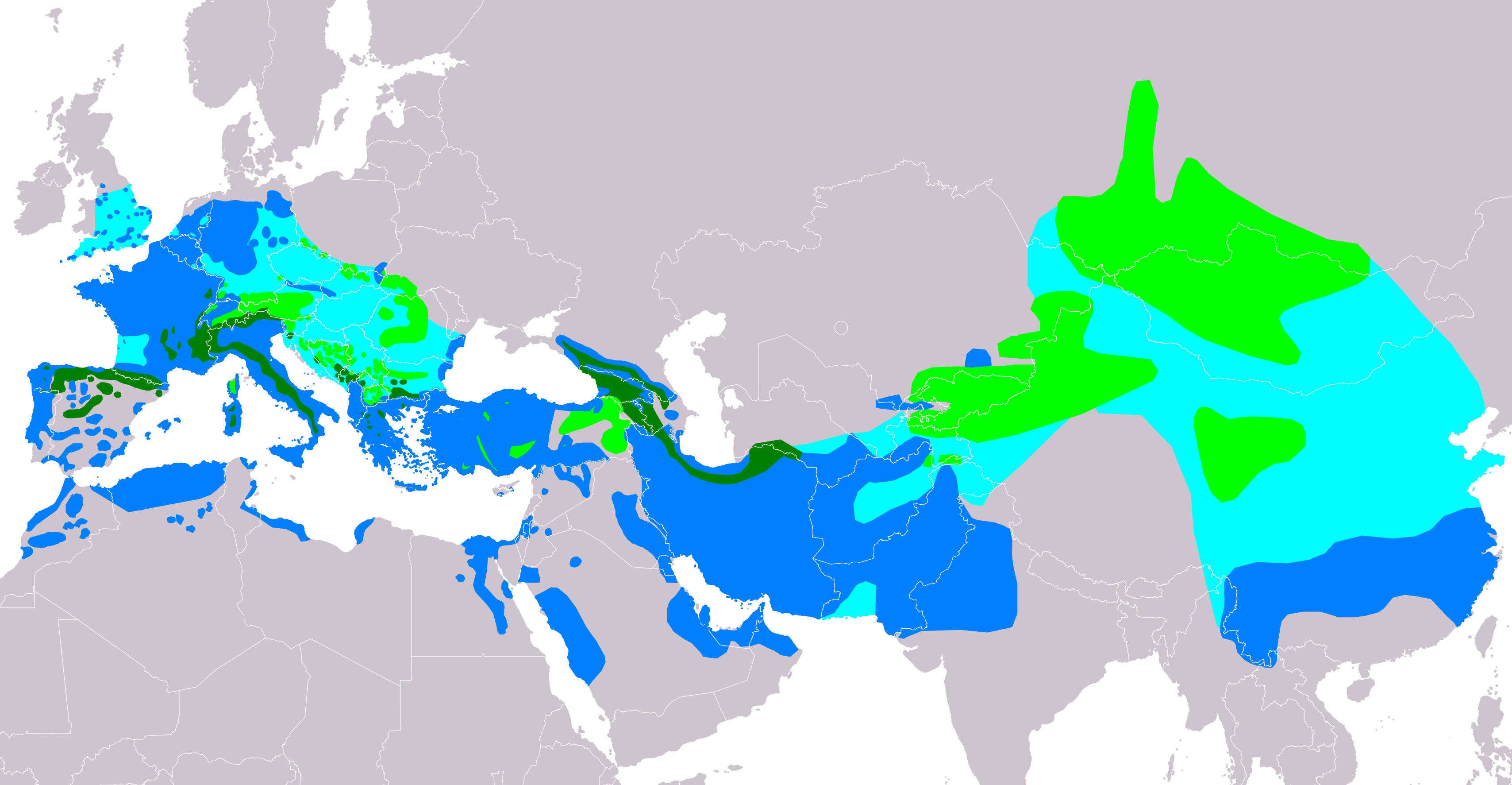 The distribution map of water pipit (Anthus spinoletta) according to IUCN version 2019.1; key: Legend: Extant, breeding (#00FF00), Extant, resident (#008000), Extant, passage (#00FFFF), Extant, non-breeding (#007FFF)